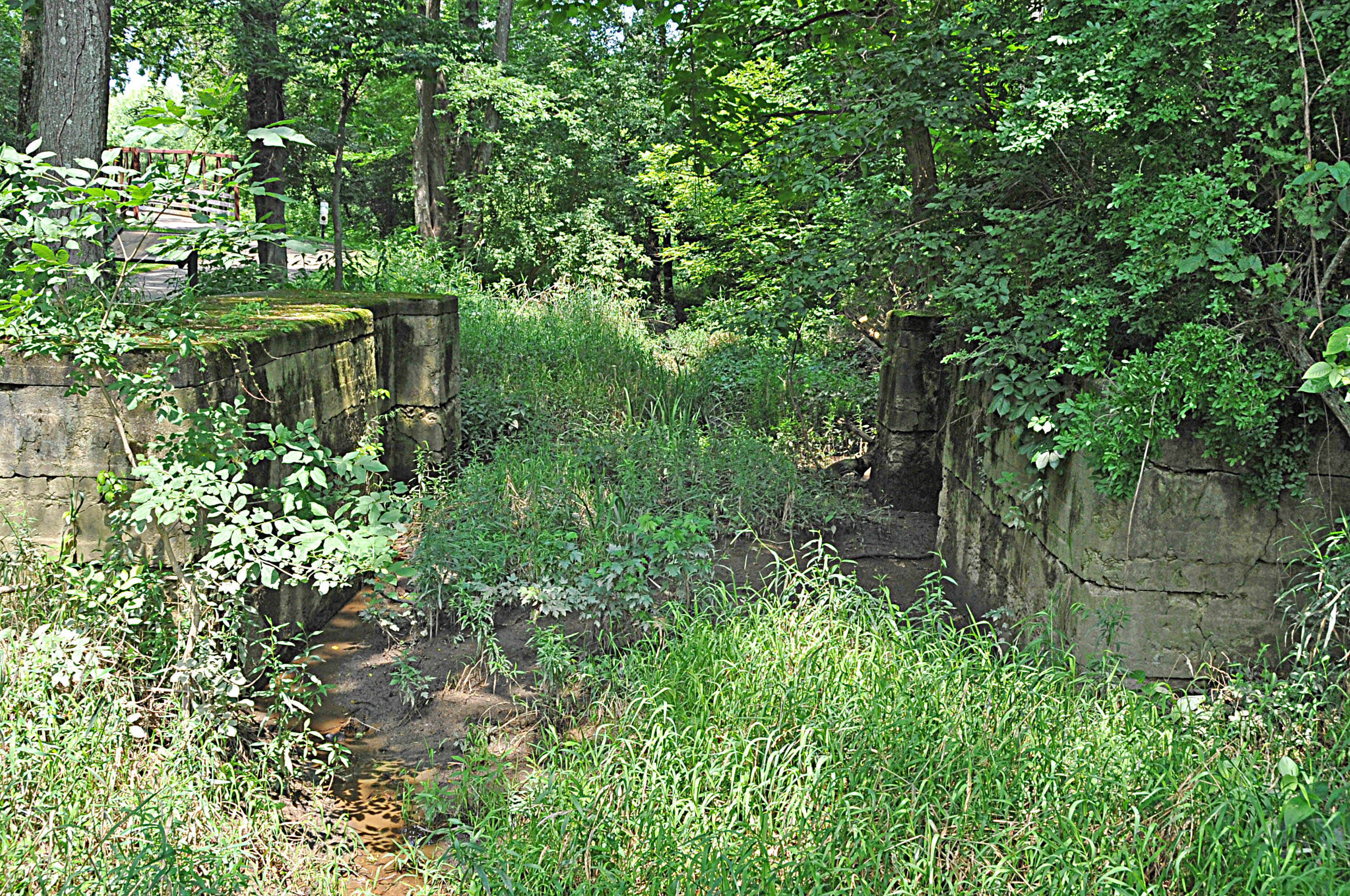 GUARD LOCKS ARE RELATIVELY RARE ON THE CANAL BUT ONE REMAINS NEAR CLINTON. THESE WERE NEEDED TO MAINTAIN A CONSTANT WATER LEVEL IN THE CANAL. THIS IS A PICTURE OF ONE OF THE RARE GUARD LOCKS WHICH NOW IS IN RUINS